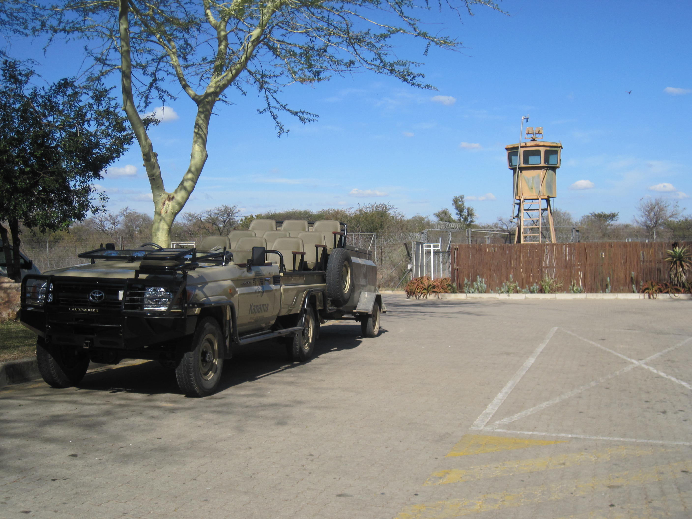 Passenger pick-up area at Eastgate Airport in Hoedspruit, South Africa